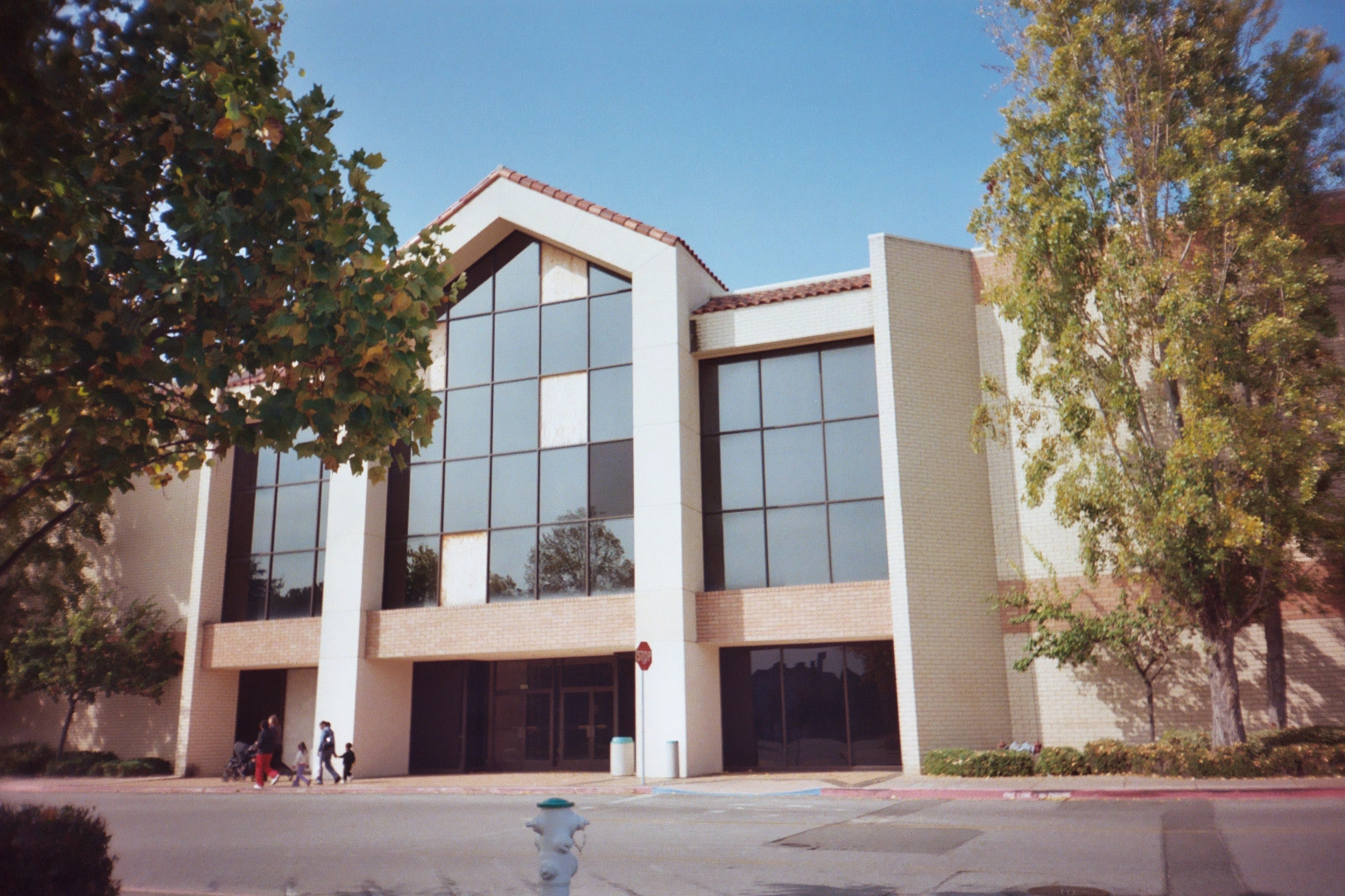 Sunnyvale Town Center mall, California, entrance facing Sunnyvale Avenue, after closure